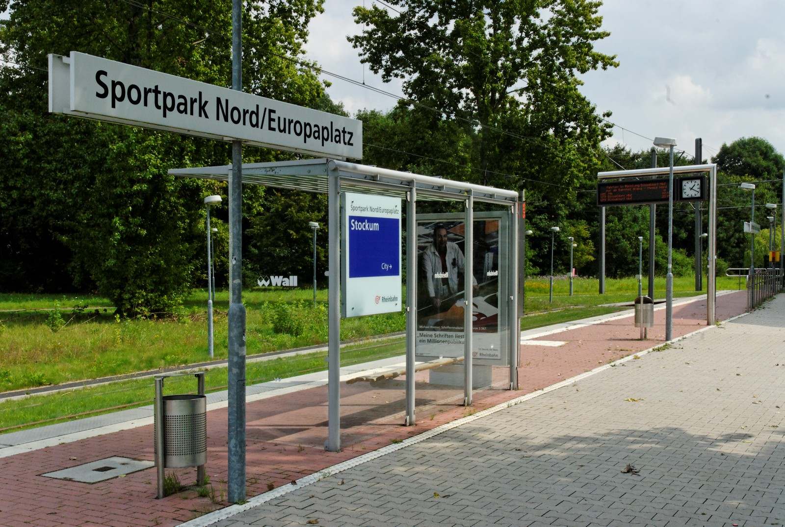 Rapid transit station Sportpark Nord/Europaplatz in Düsseldorf-Stockum, Germany